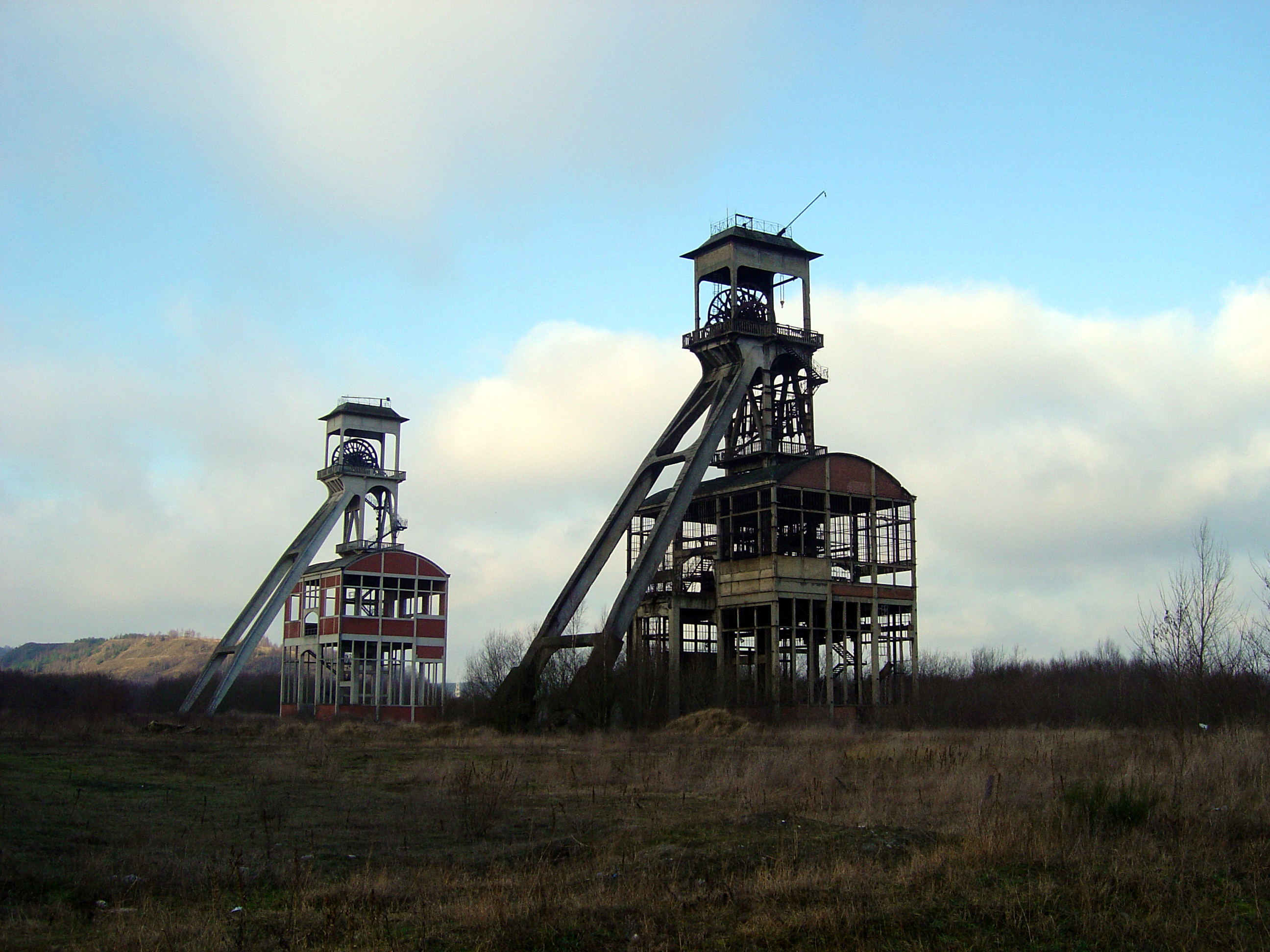 Abandoned mine shafts in Maasmechelen, Belgium